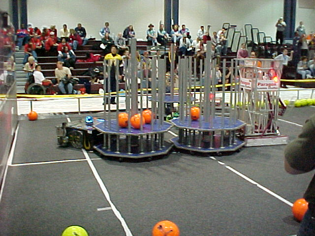 A picture of a Zone Zeal game in progress This is an image of a Zone Zeal game in progress. You can clearly see the zones marked out with white tape. There are two mobile goals with scored balls in the 2nd from the left goal.